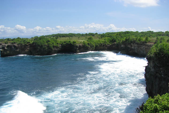 The typical low lying limestone cliffs of south-west Nusa Lembongan